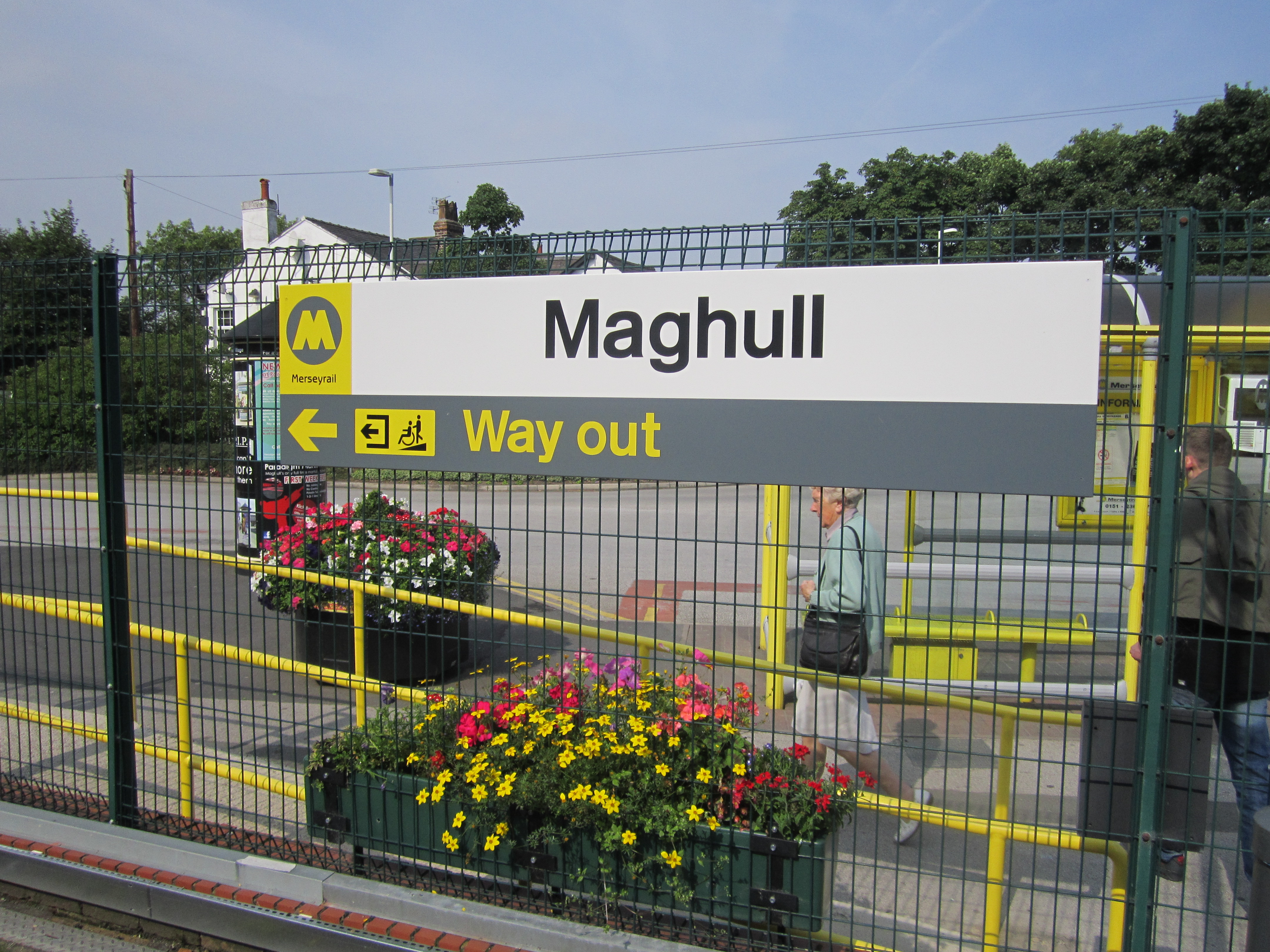 Photo taken at Maghull railway station, Merseyside, England.